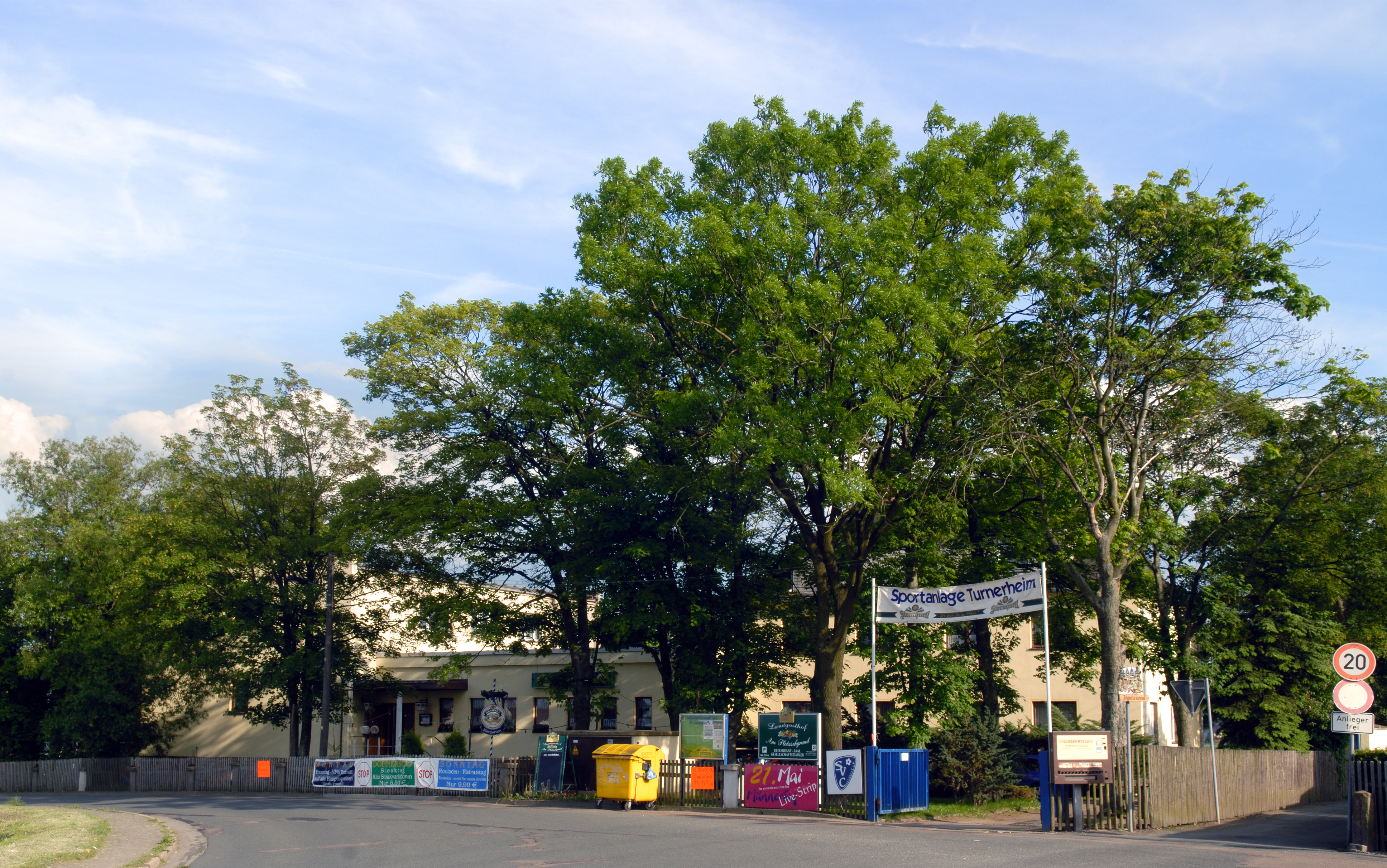 This image shows the sports facility "Turnerheim" in Zwickau Cainsdorf.